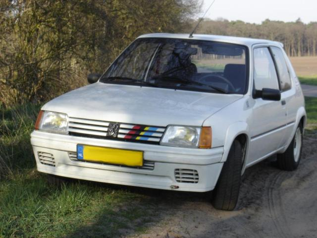 Peugeot 205 Rallye